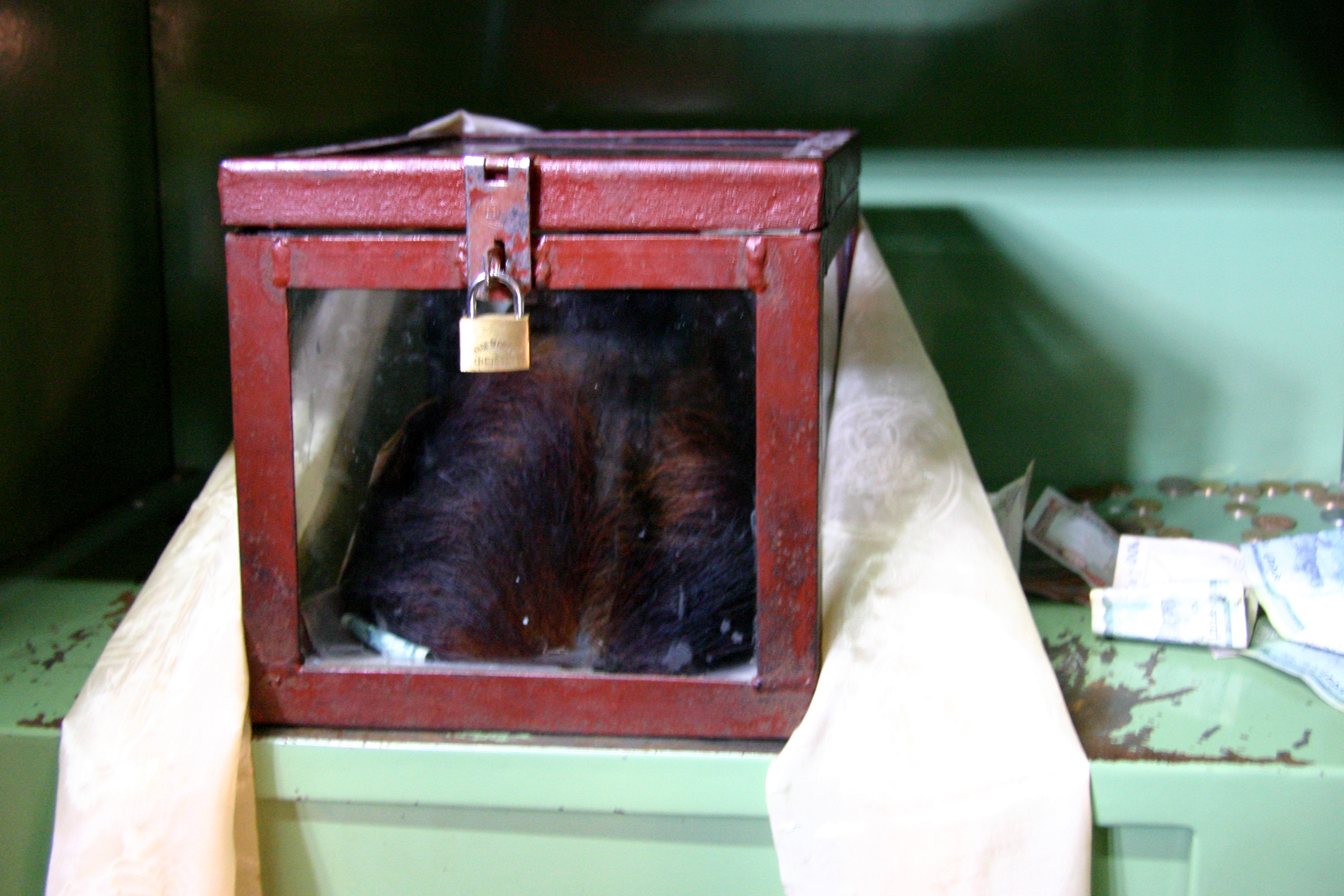 Gompa in Khumjung village in Solukhumbu District in Nepal